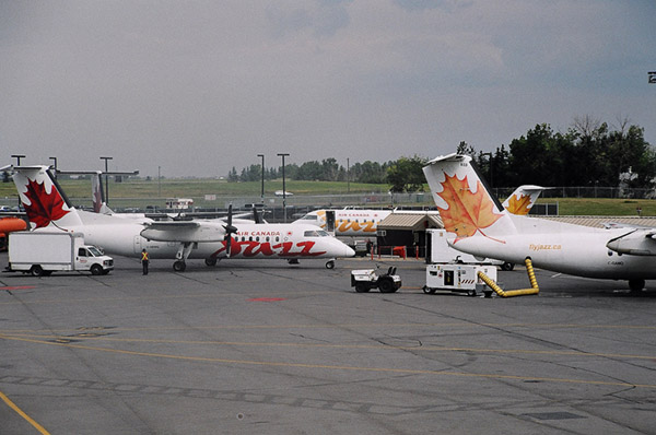 Part of Concourse A in the Calgary International Airport. This space is reserved for small props.